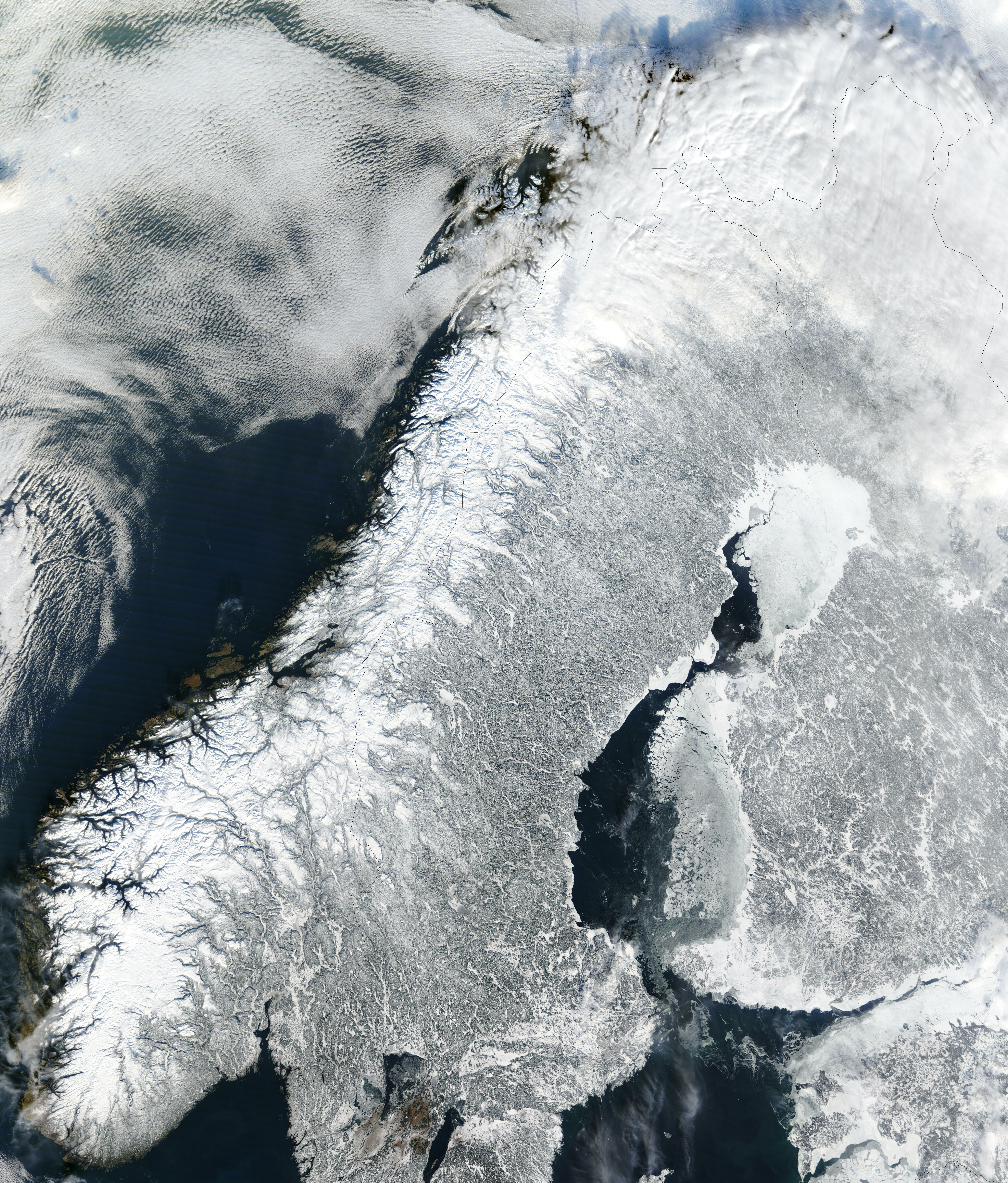 Satellite image of continental Norway in February 2003.